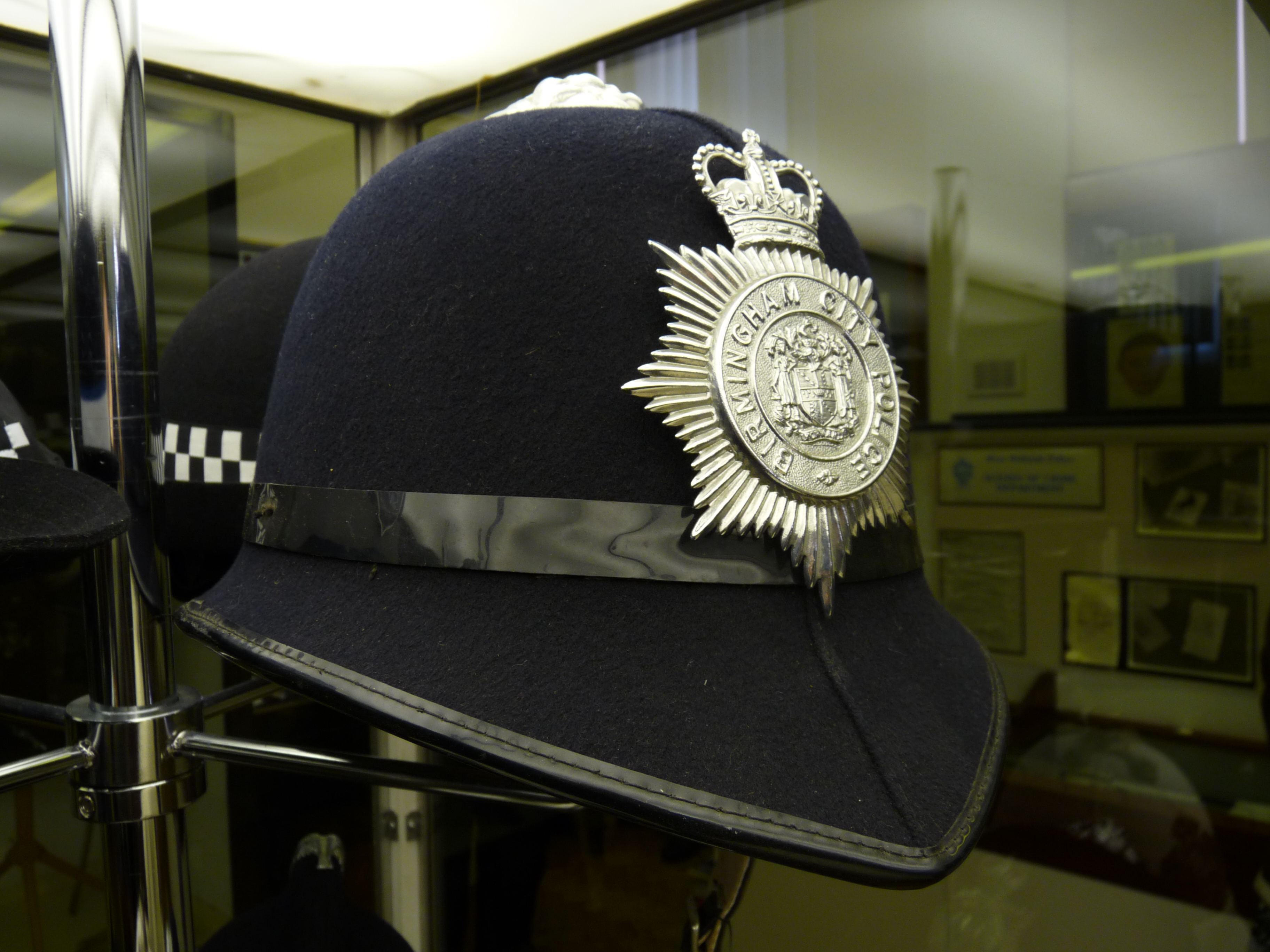 A helmet of the Birmingham City Police in the collection of the West Midlands Police Museum, Sparkhill Police Station, Birmingham.